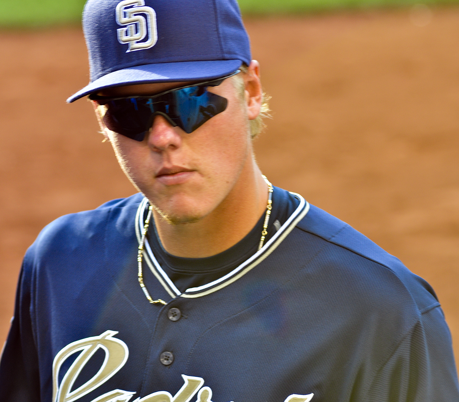 Mat Latos on 7/21/09